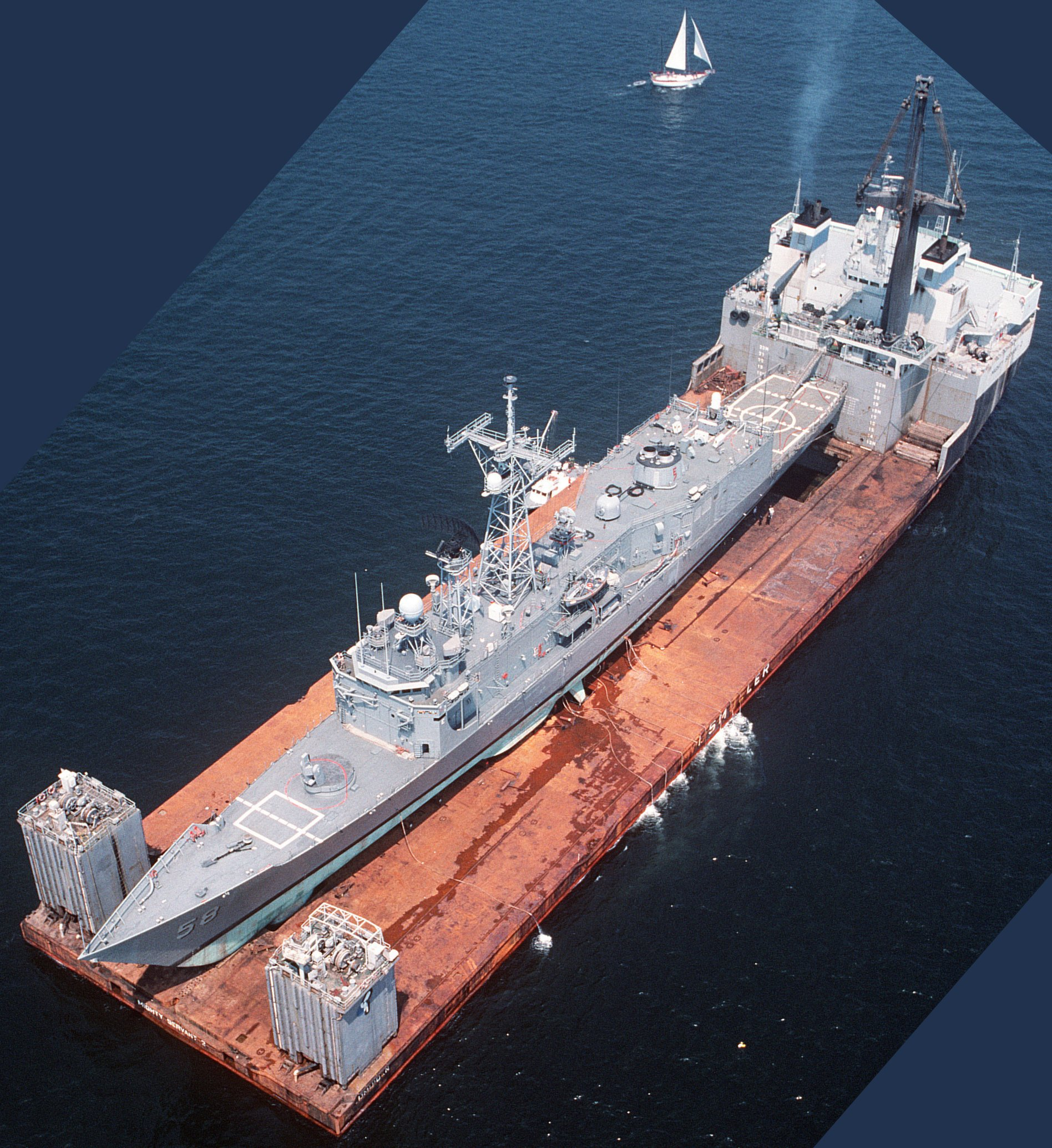 Damaged by a mine in the Persian Gulf, the guided missile frigate USS Samuel B. Roberts is transported by MV Mighty Servant 2 from Dubai to Newport, Rhode Island. Information about Mighty Servant 2 may be found at IMO 8130887. A ship can change her name and flag state through time, but the IMO number remains the same through the hull's entire lifetime. Therefore, it's useful to identify a ship through her IMO number.